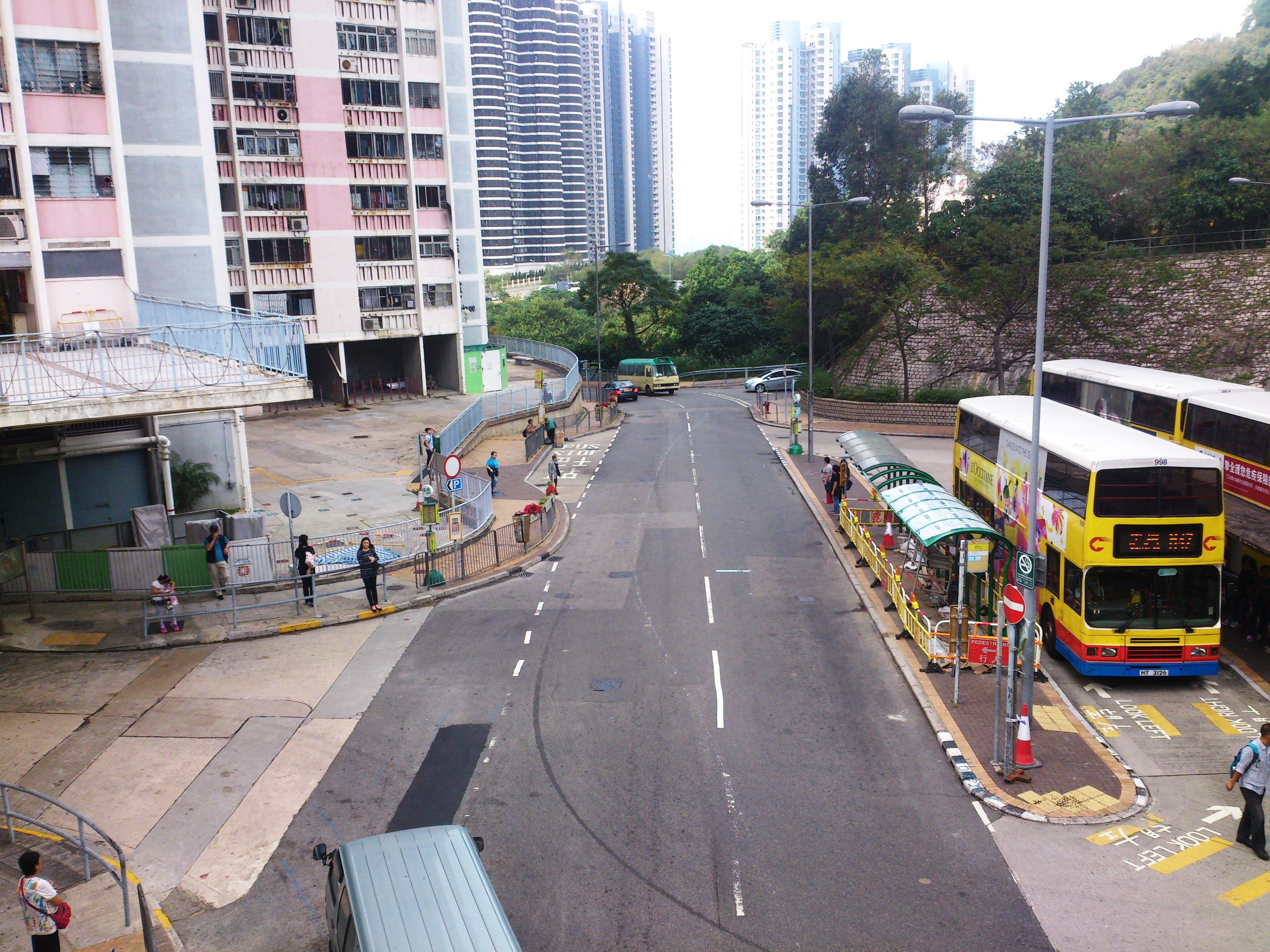 Wah King Street near Wah Fu (North) Bus Terminus